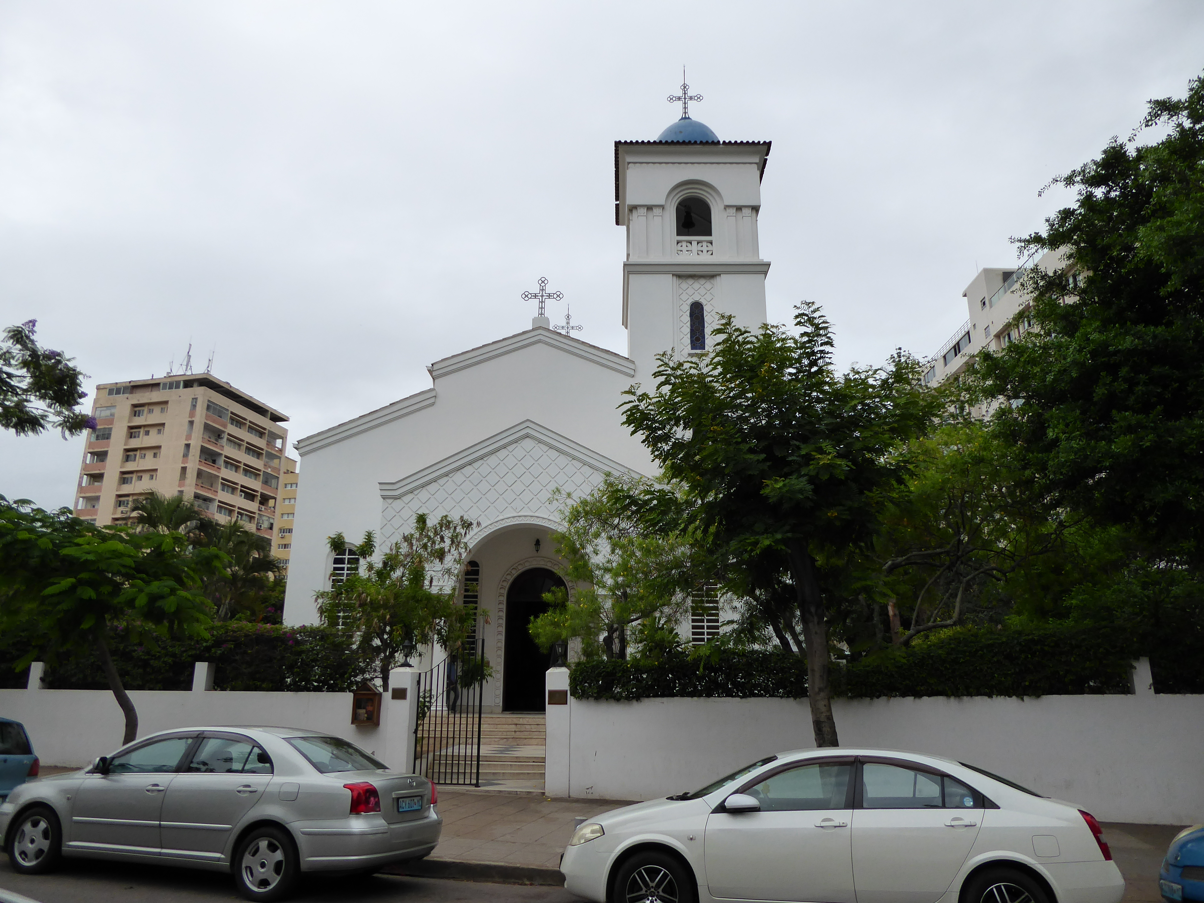 Orthodox Cathedral Archangels Michael and Gabriel, Maputo, Mozambique